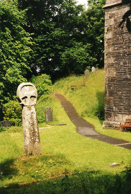 Lesnewth: churchyard cross. A cross thought to date from the Celtic Christian era